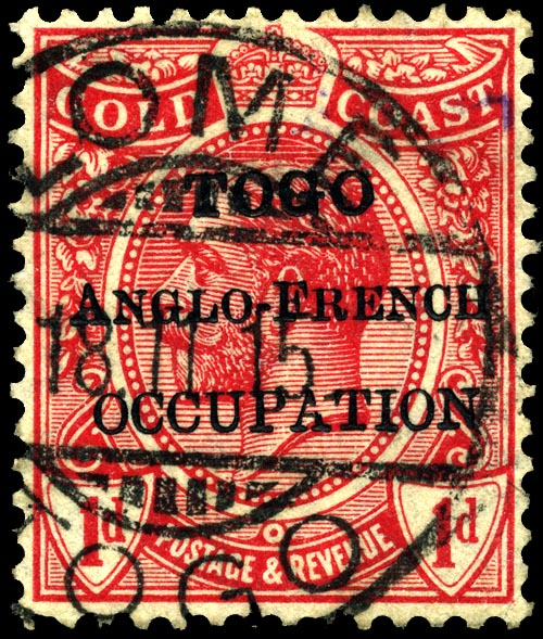 Togo 1-penny occupation overprint stamp of 1915